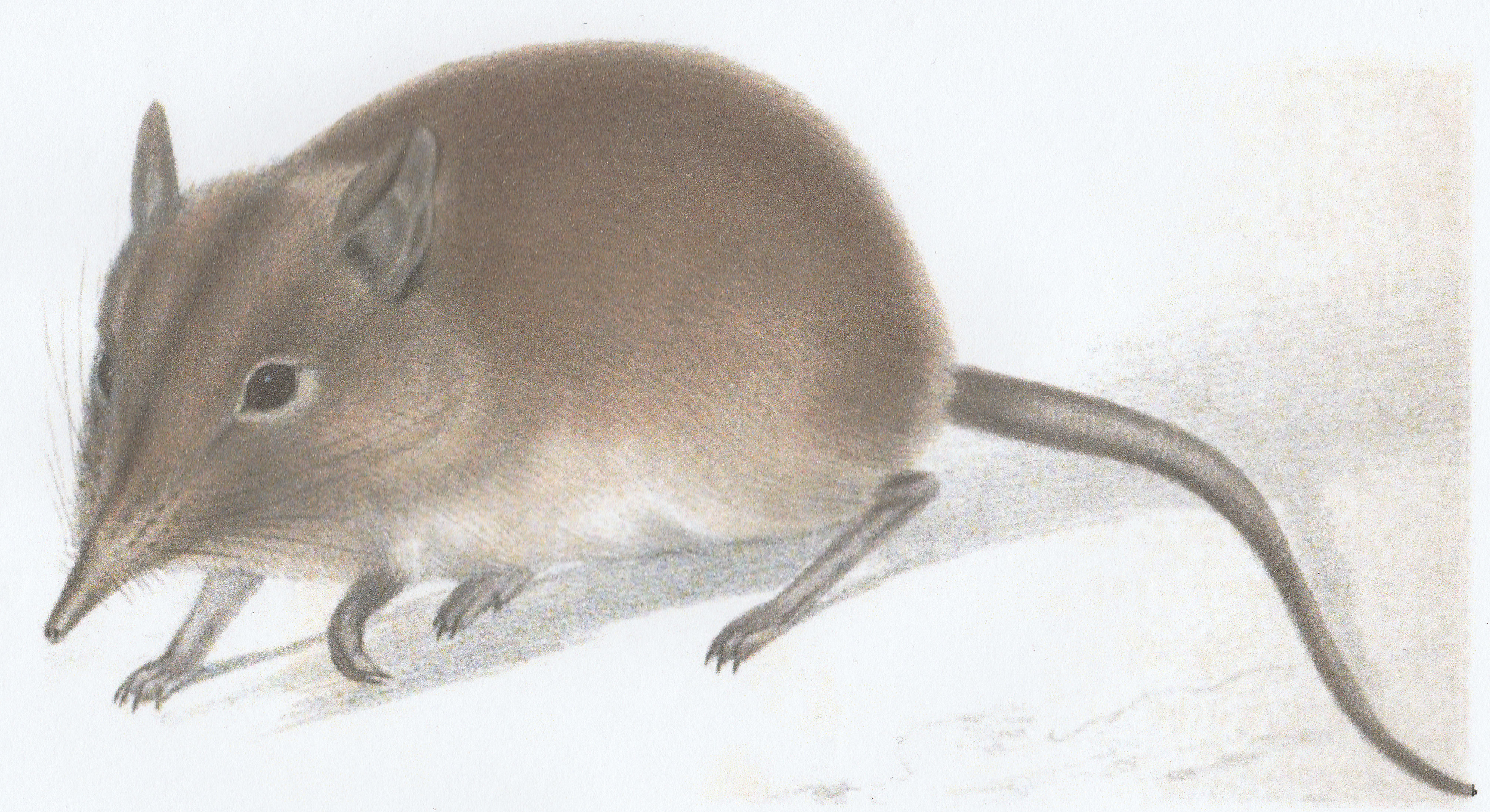 Drawing of Elephantulus brachyrhynchus published by Andrew Smith (under the scientific name Macroscelides brachyrhynchus): Illustrations of the Zoology of South Africa. Mammalia. London, 1839 (plate 13) Zeichnersische Darstellung von Elephantulus brachyrhynchus, veröffentlicht von Andrew Smith (unter dem Artnamen Macroscelides brachyrhynchus): Illustrations of the Zoology of South Africa. Mammalia. London, 1839 (plate 13)